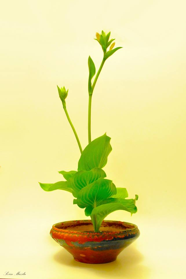 Traditional shōka shofutai.